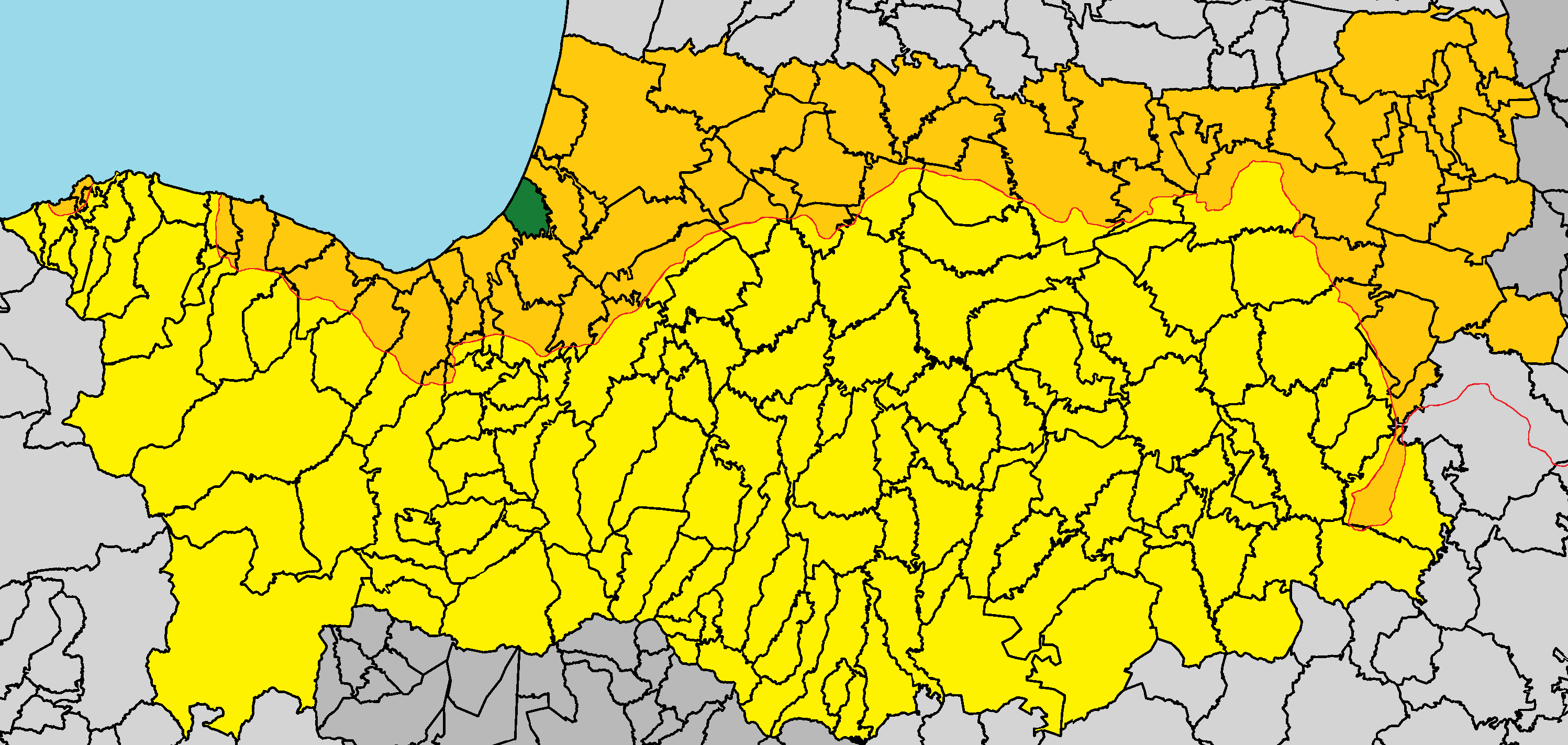 Kazivera in Nicosia District (de jure).